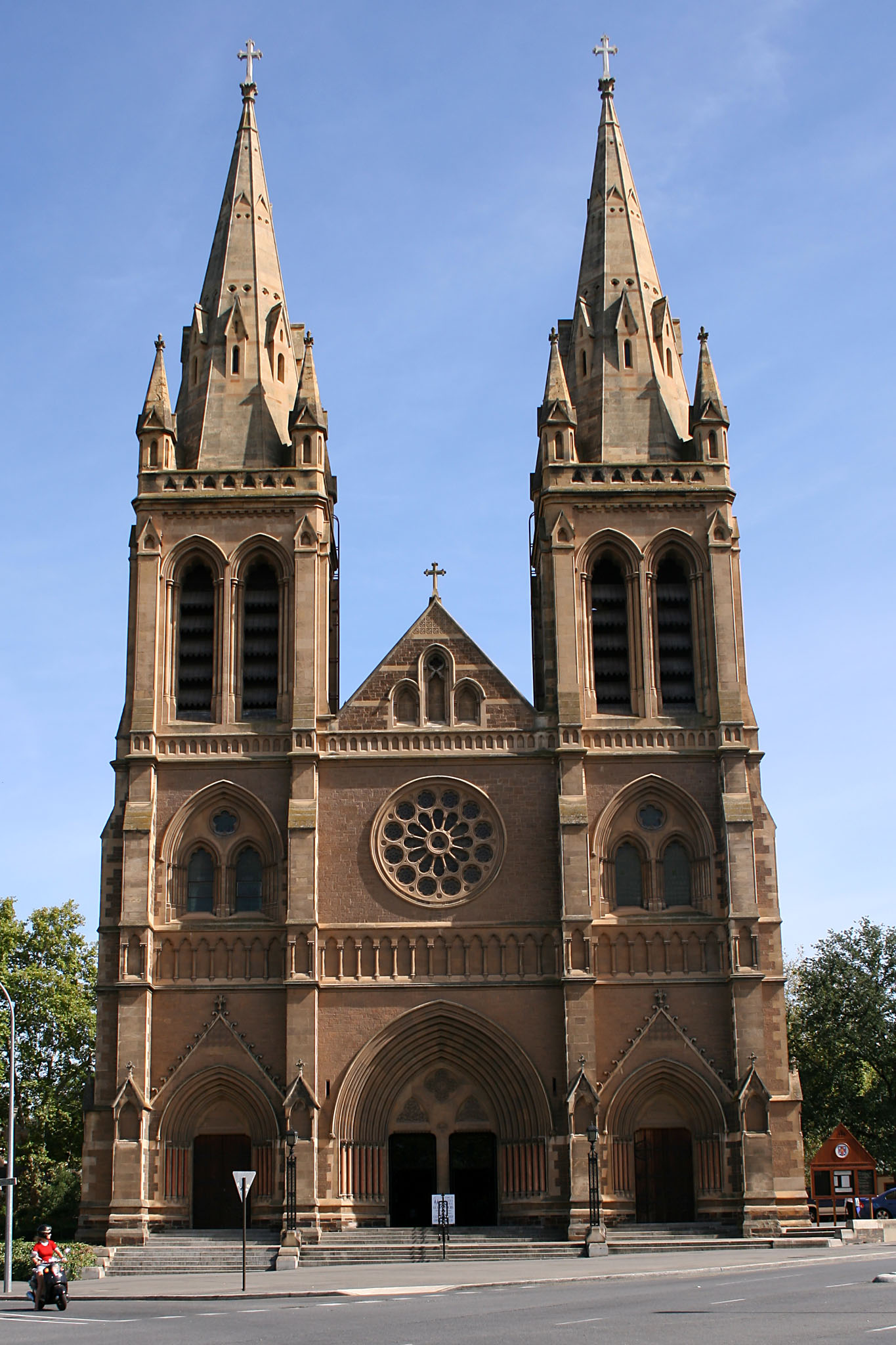 St. Peter's Cathedral, Adelaide, Australia